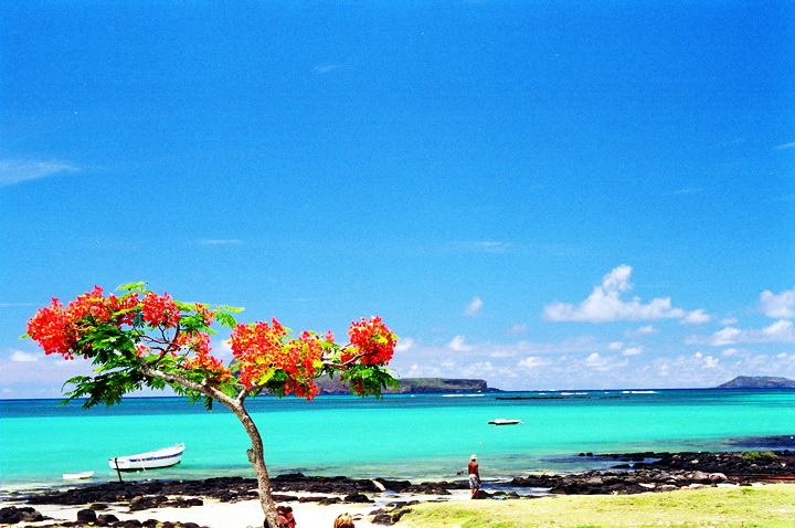 The coast of Mauritius